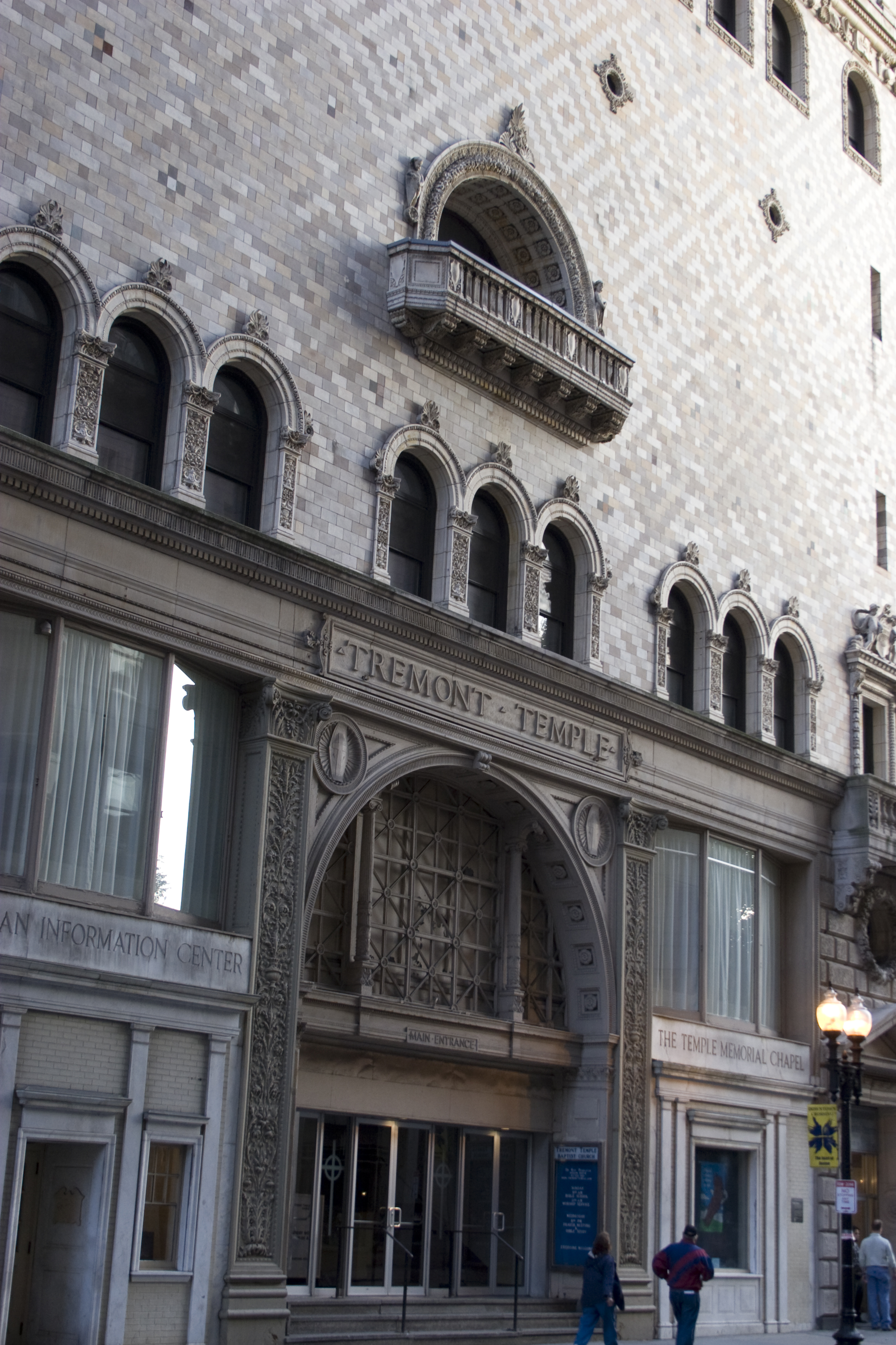 The entrance to Tremont Temple